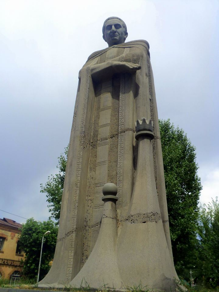 Tigran Petrossian Statue in the city center of Aparan